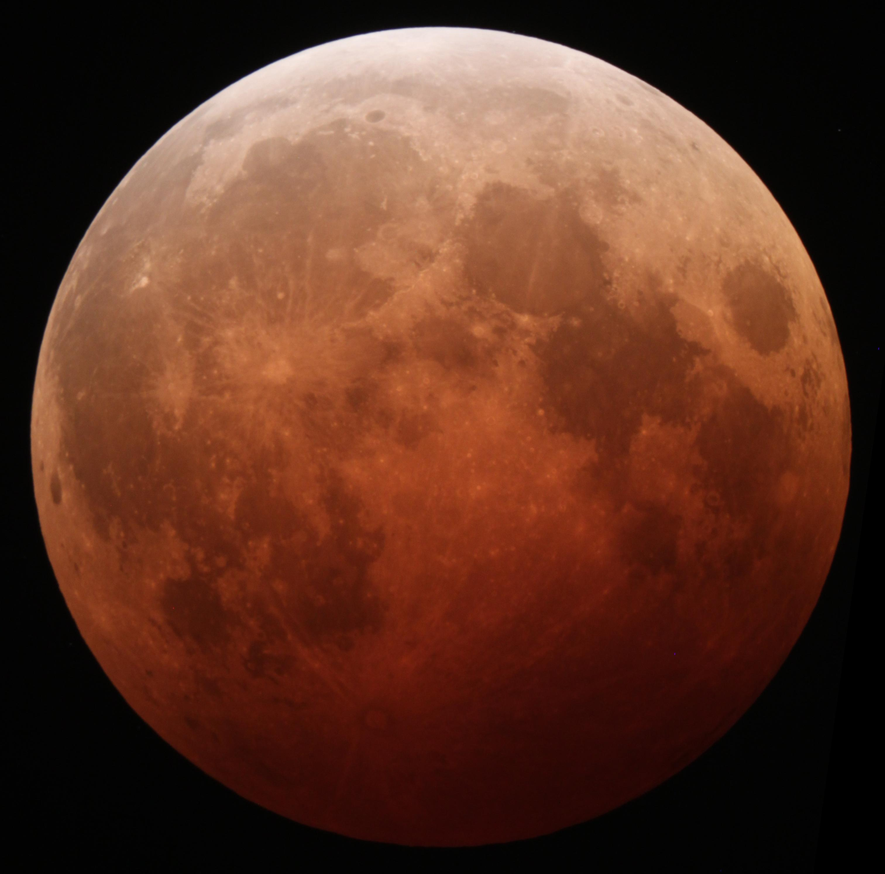 October 2014 lunar eclipse, Loleta, California, near greatest eclipse, Meade 10" f/10 LX 200 SCT at F/6.3 using Canon T1i DSLR